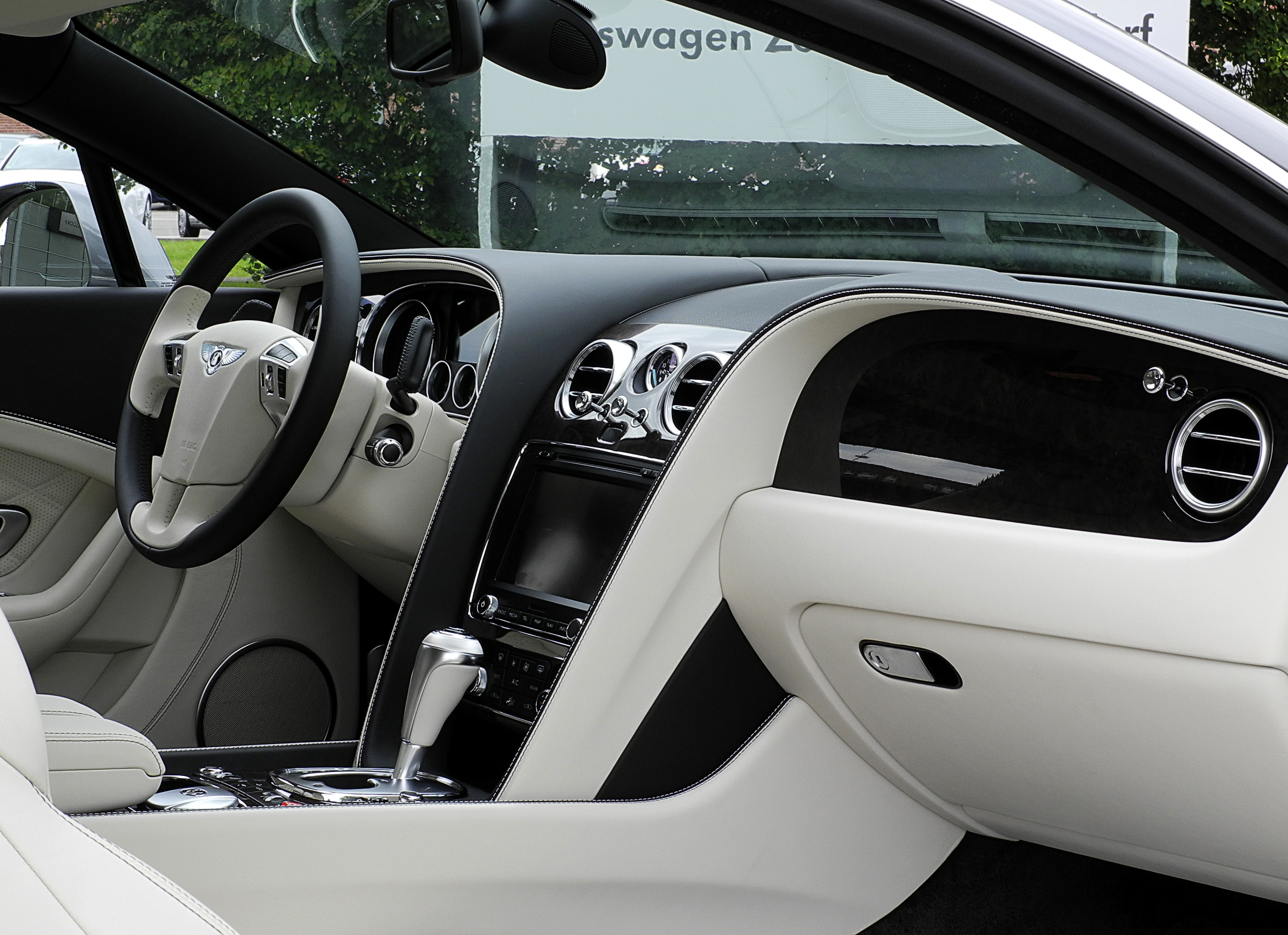 Bentley Continental GT (II)